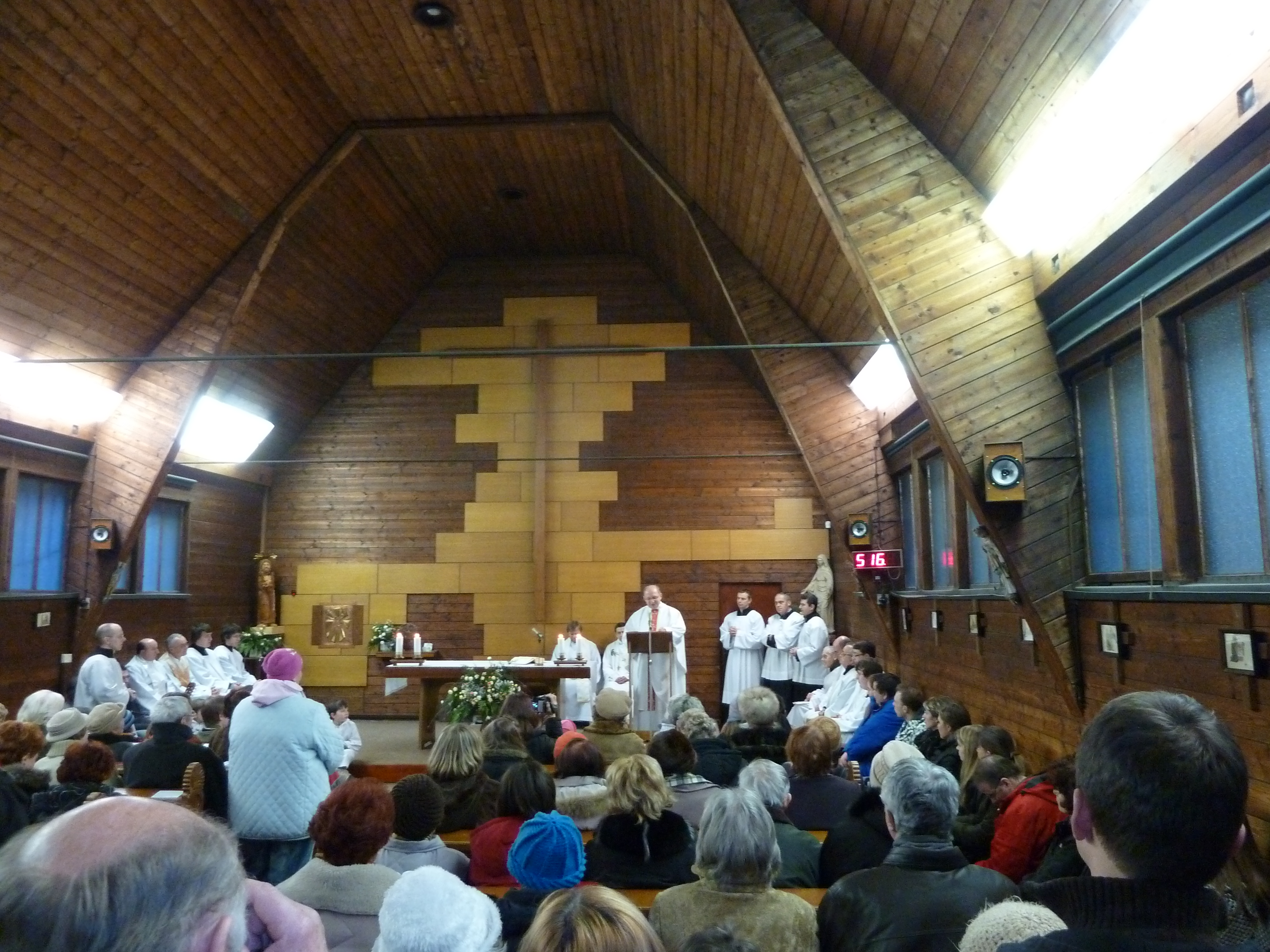 Farewell to Alberto Girlada Cid